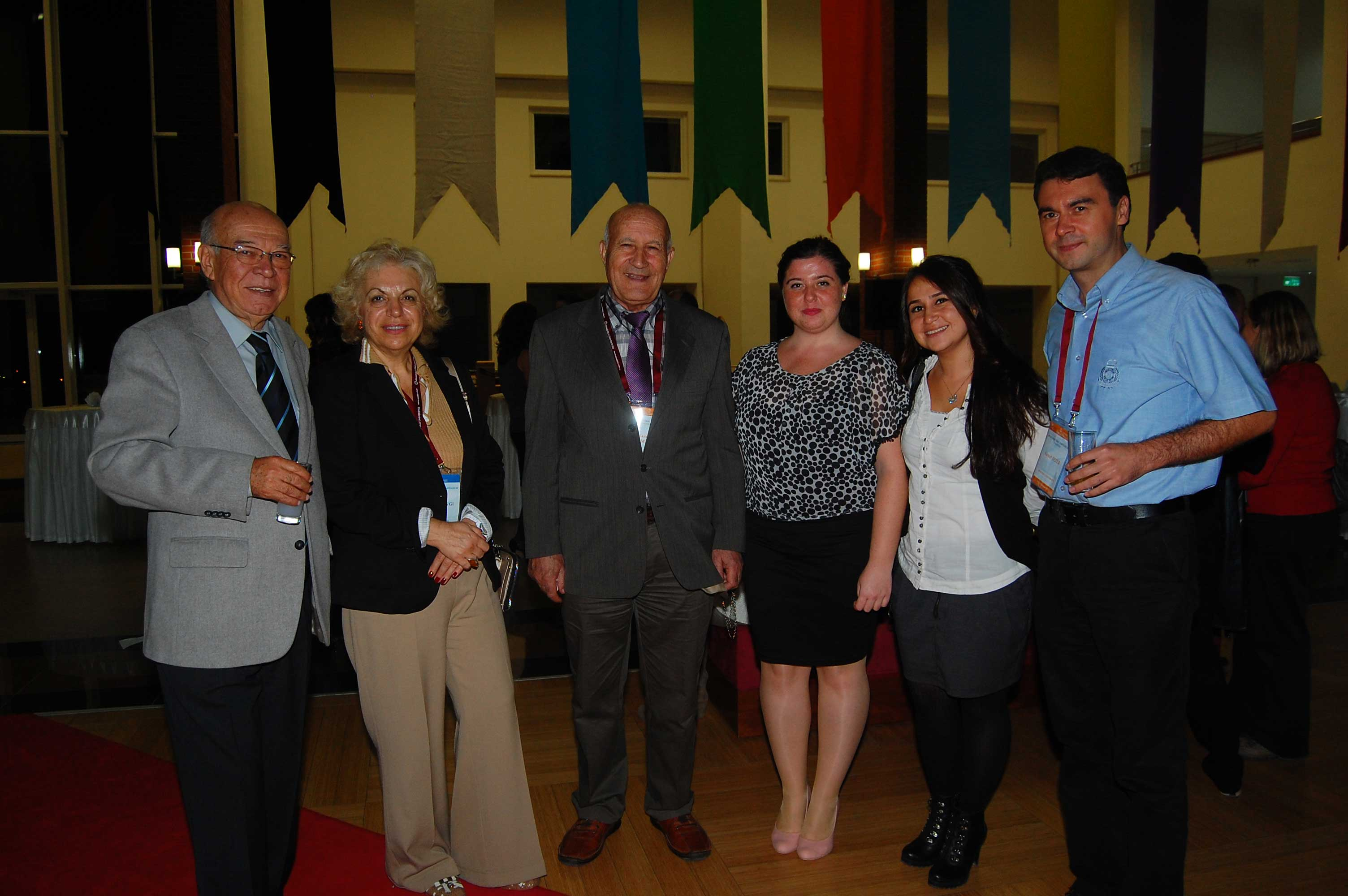 tədbir 5